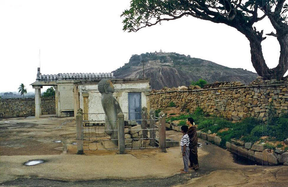 Piligrims paying respects to statue of Bharatha on top of Chandragiri. Background you can see statue of Gomateshwara Bahubali on top of Vindyagiri. Snap taken by me.